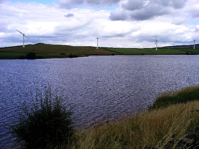 Chelker Reservoir & Wind Farm. Chelker Reservoir, near Addingham, N.Yorkshire, was put into service in 1866 & serves the Bradford area. It has a surface area of 52.3 acres & is 215m above sea level. The 4 turbine windfarm, operated by Yorkshire Water Services, came online in December 1992 & has a total capacity of 1.2 mw. The turbines pump water from the River Wharfe up to the reservoir.